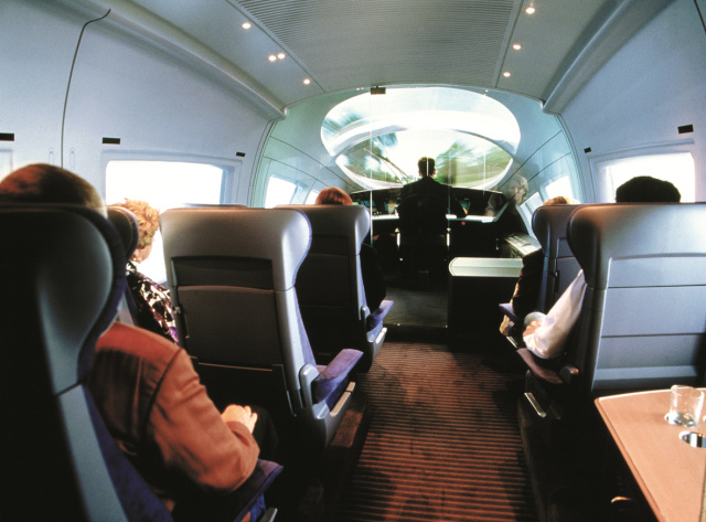 Mock up of the "Lounge" area at the front car of the ICE 3 trains. This part of the mock up can today be seen at the Deutsche Bahn railway museum in Nuremberg.